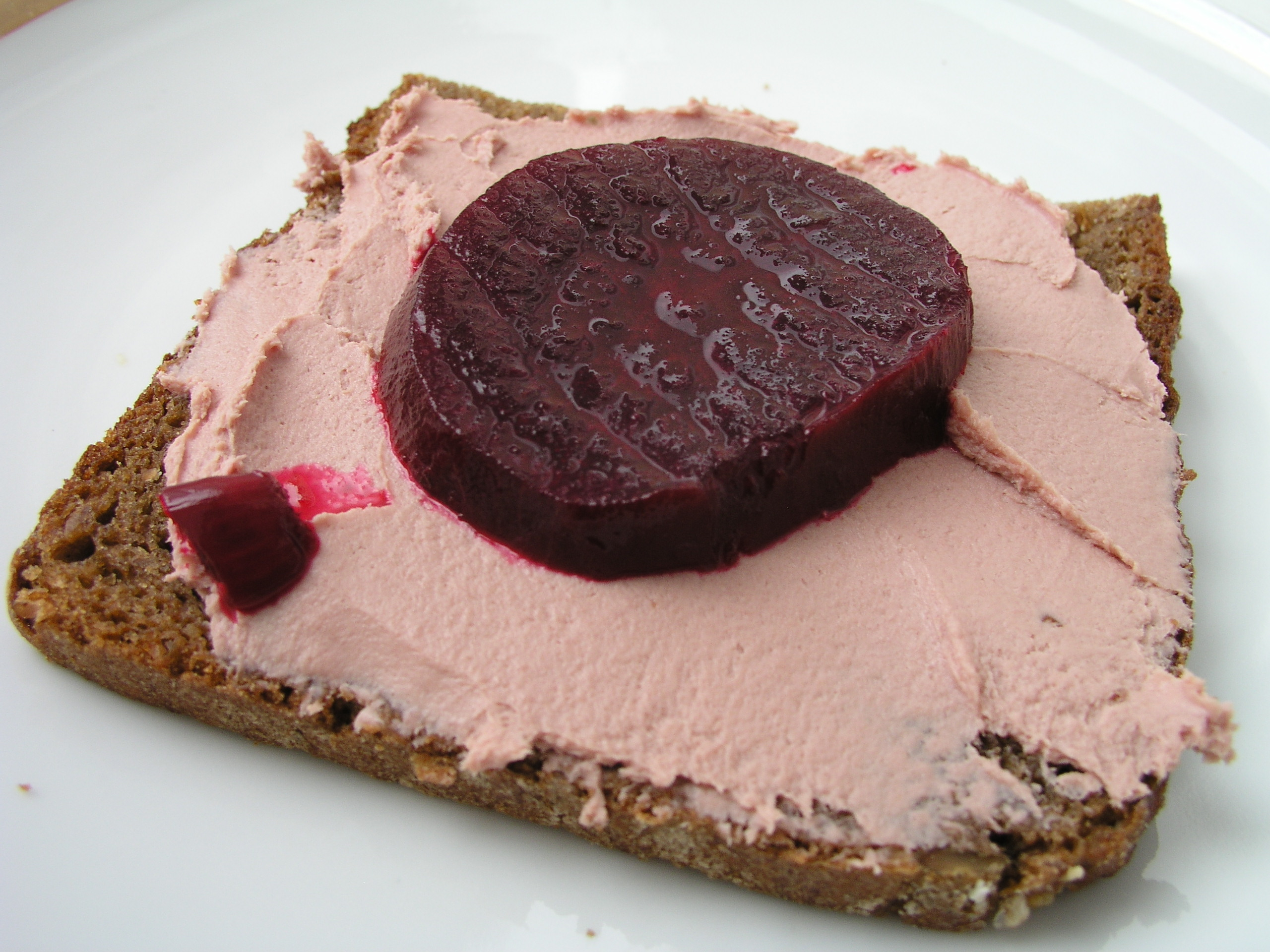 Leverpostejmad med syltet rødbede (open sandwich of Danish rye bread with liver paté and pickled beetroot)